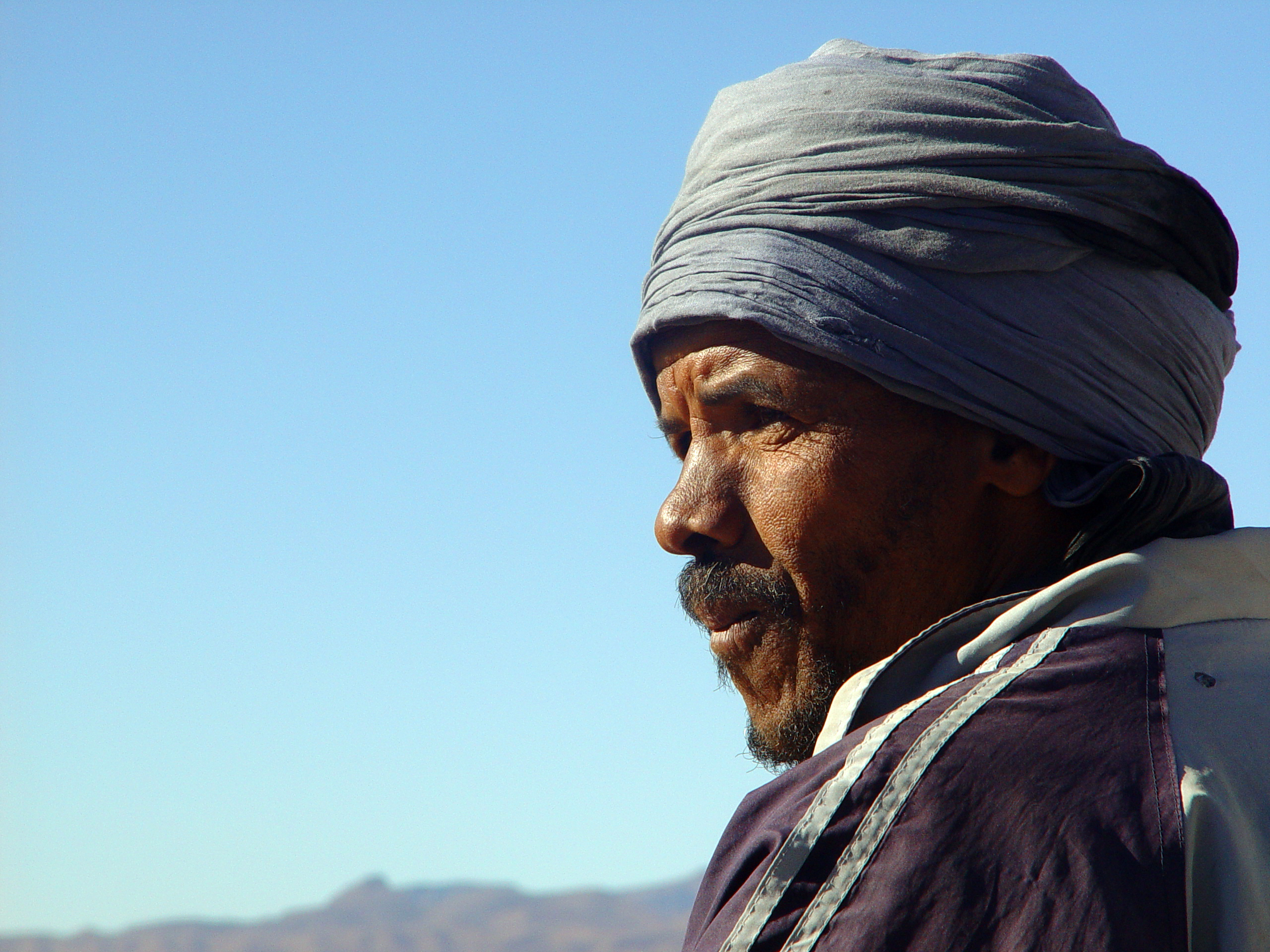 A Moroccan Berber in in the valley of the Draa river wearing turban